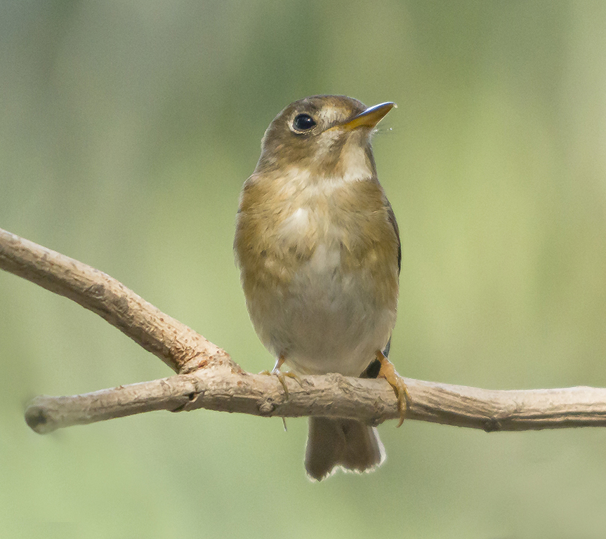 Adult